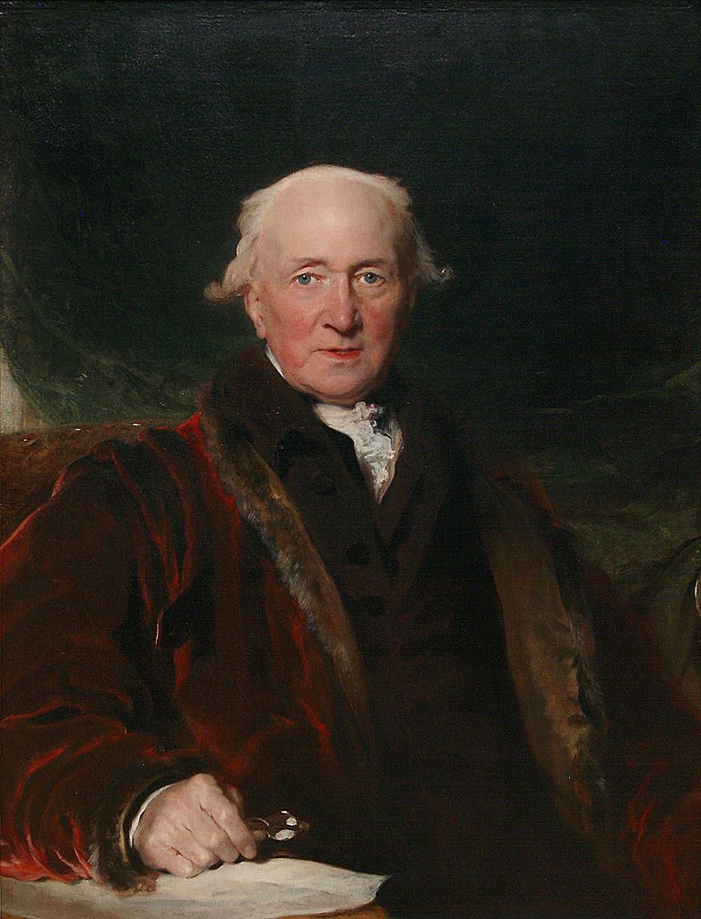 John Julius Angerstein